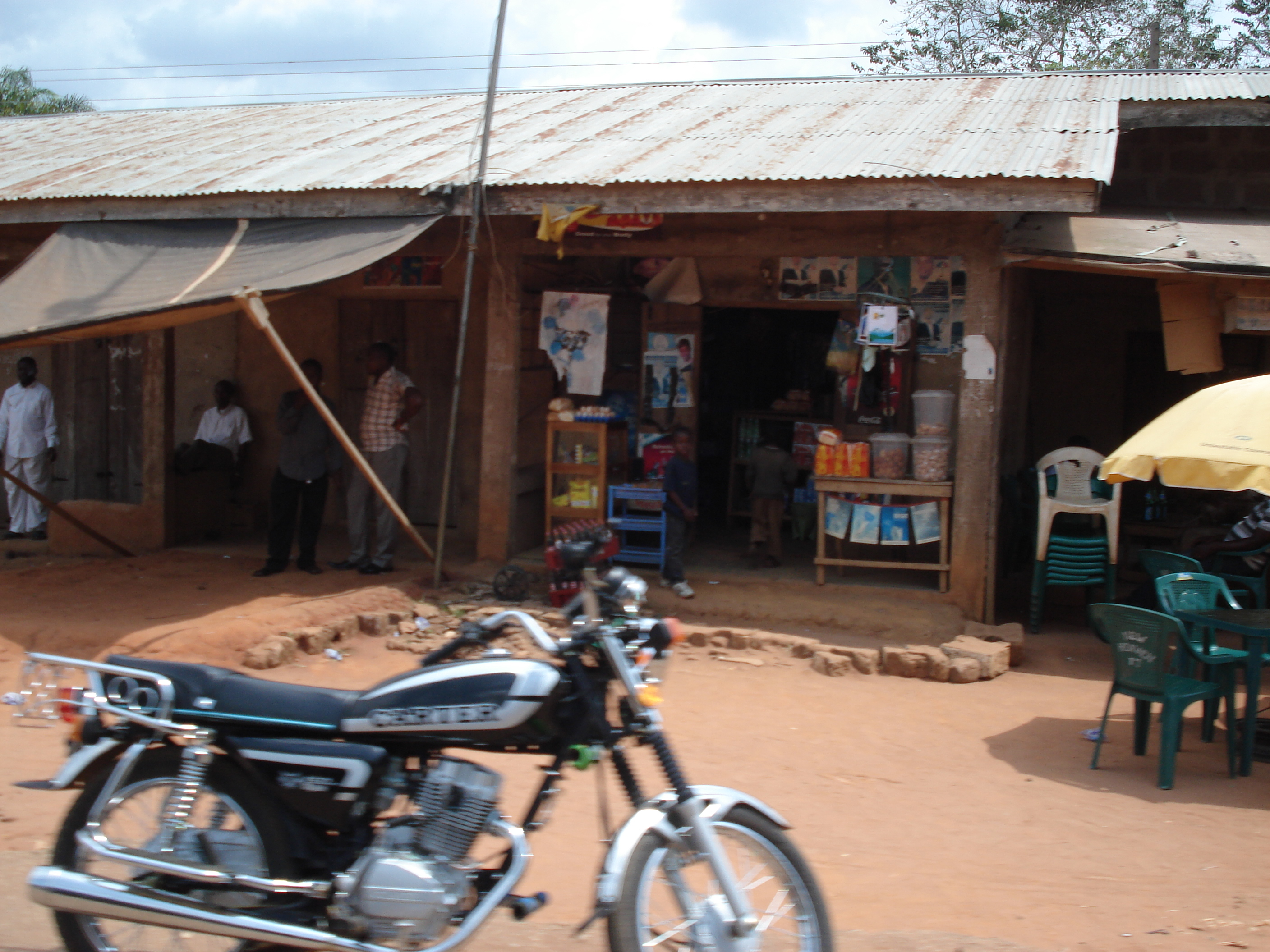 A juxtaposition of affluence and poverty